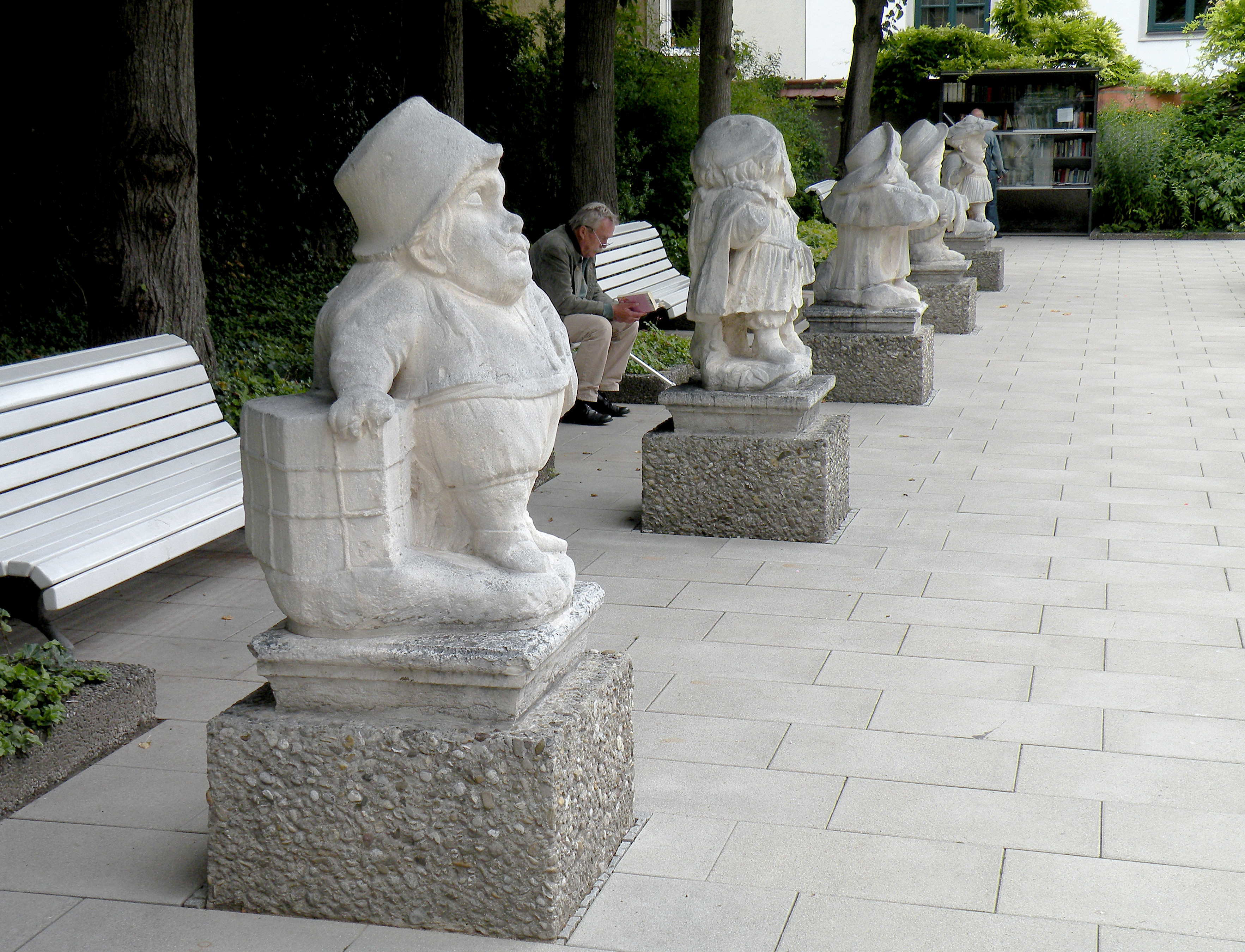 Hofgarten in Augsburg. Barockzwerge and free bookcase.